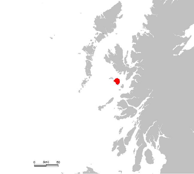 UK Rum.PNG (Scotland, Hebrides)